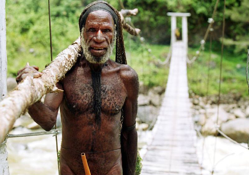 Dani tribesman on his way to his village Pasema; South Pass Baliem Valley Papua